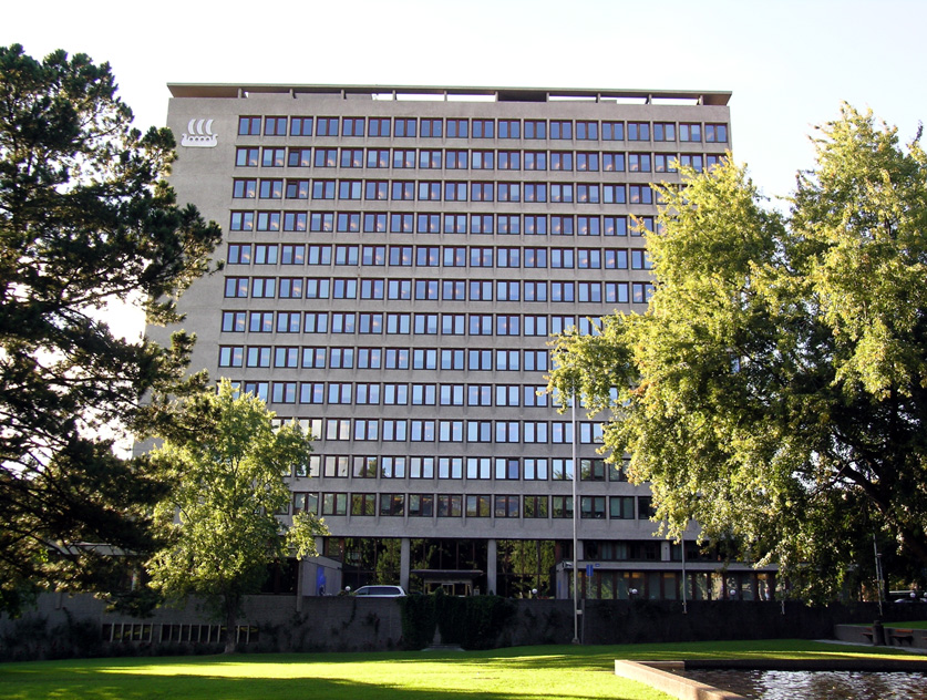 Bygdøy allé 2, Oslo. Built 1960. Architect: Erling Viksjø. Former Yara headquarters